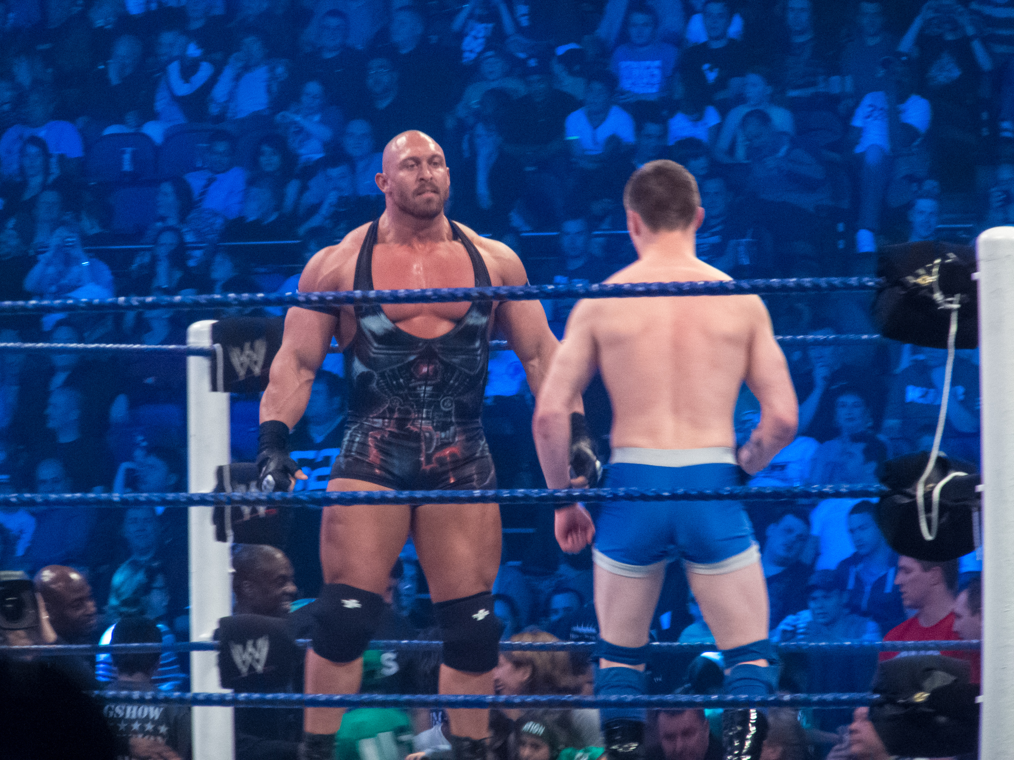 Ryback vs. James Lerman at WWE SmackDown